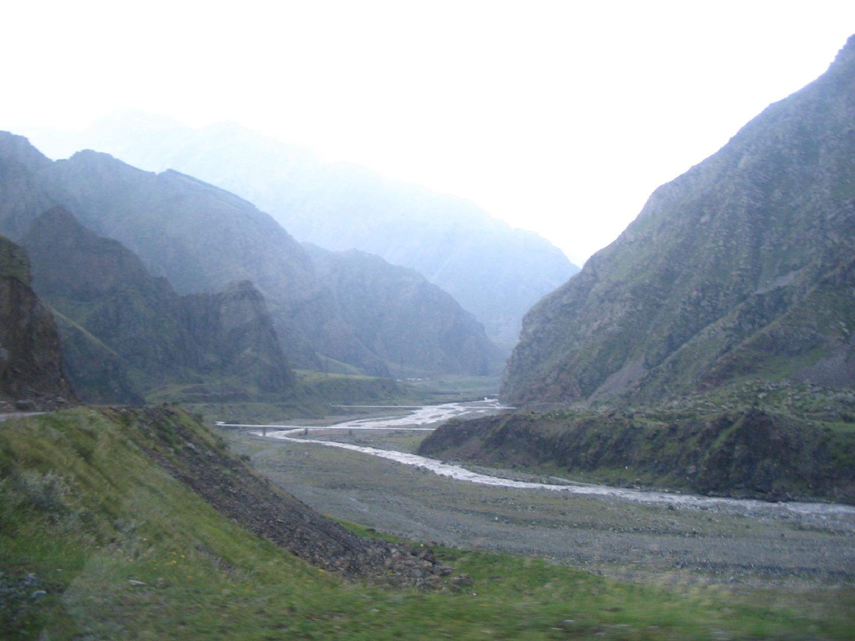 Looking north along the gorge (8km south of the Russian checkpoint in North Ossetia-Alania).